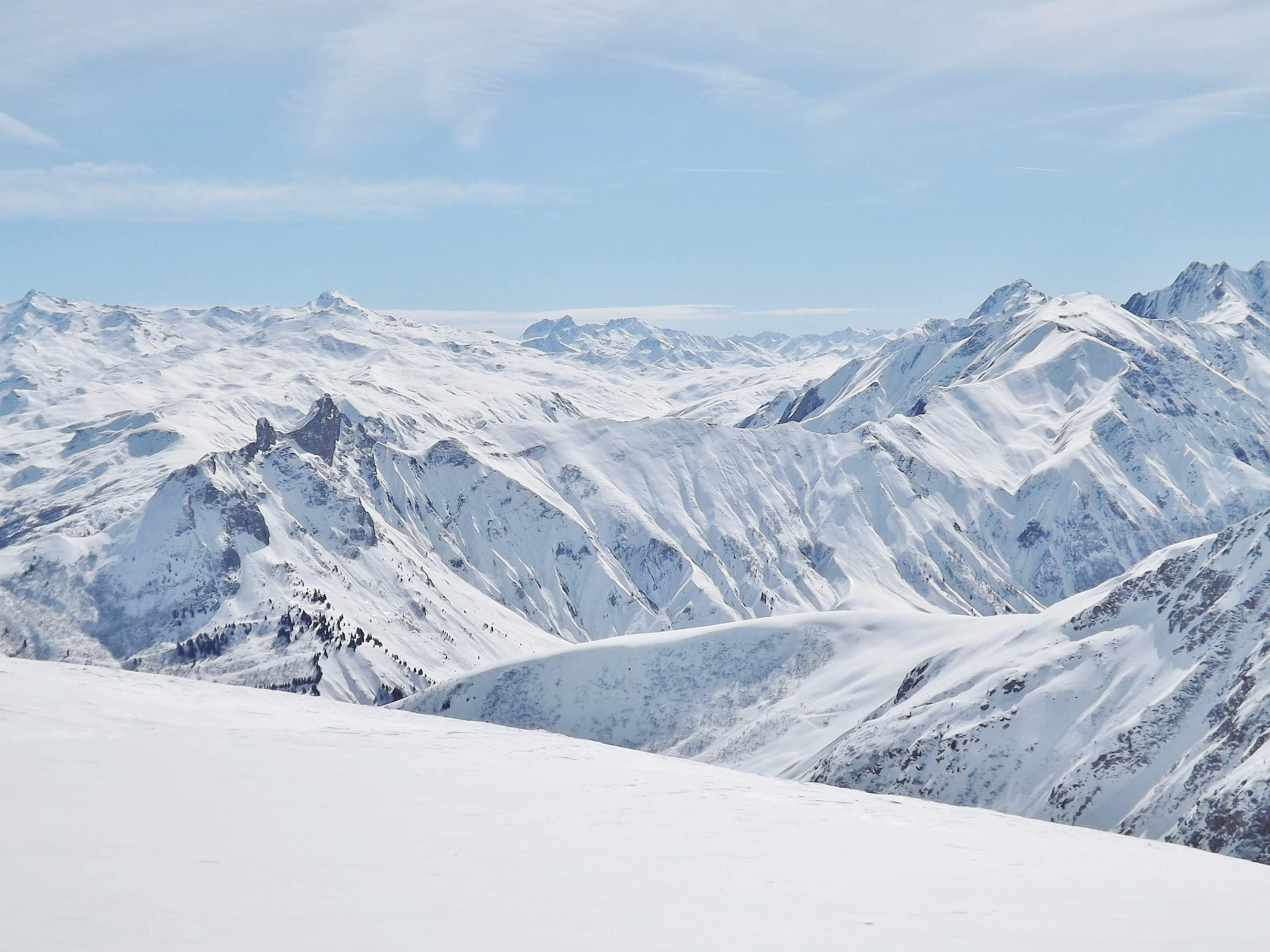 Panoramic sight, in winter, from the col du Mottet pass (2,403 meters high) of the Nant Brun river valley, part of the Vanoise mountain range, in Savoie, France.